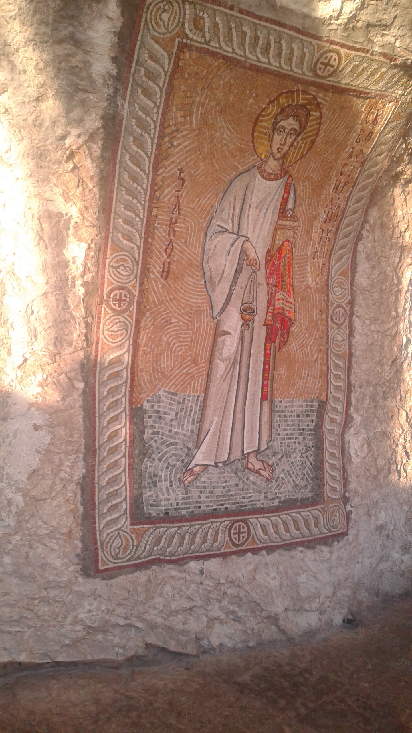 A mosaic from the Upper Ostrog monastery, Montenegro (before 1930s).